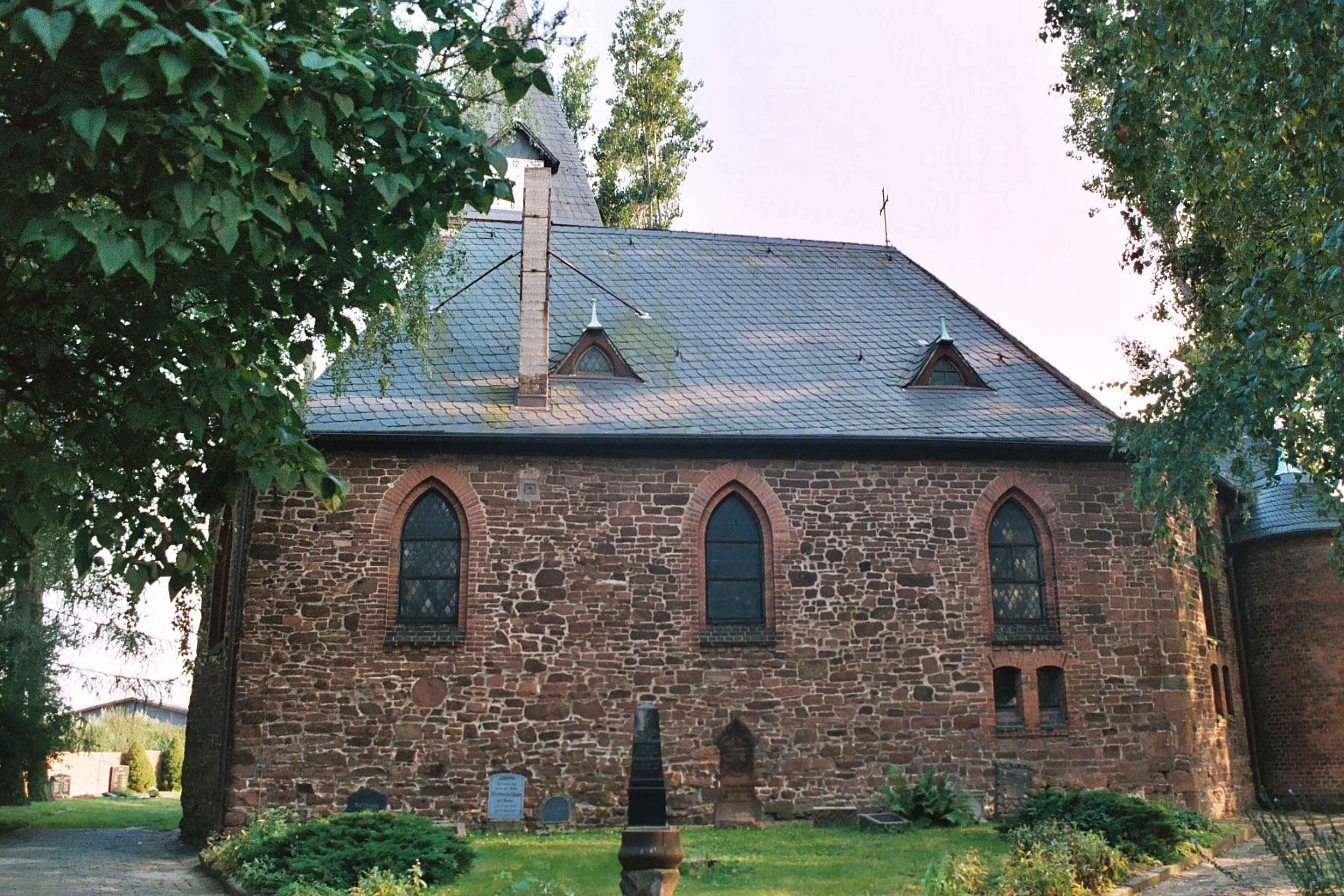 Bischofrode (Lutherstadt Eisleben), the village church